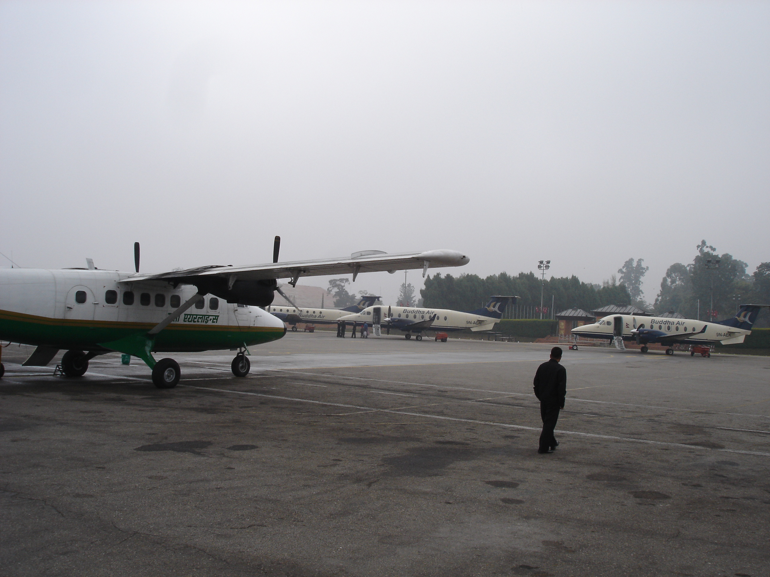 Tribhuvan International Airport, with some Buddha Air airplanes in the background. Kathmandu, Nepal.